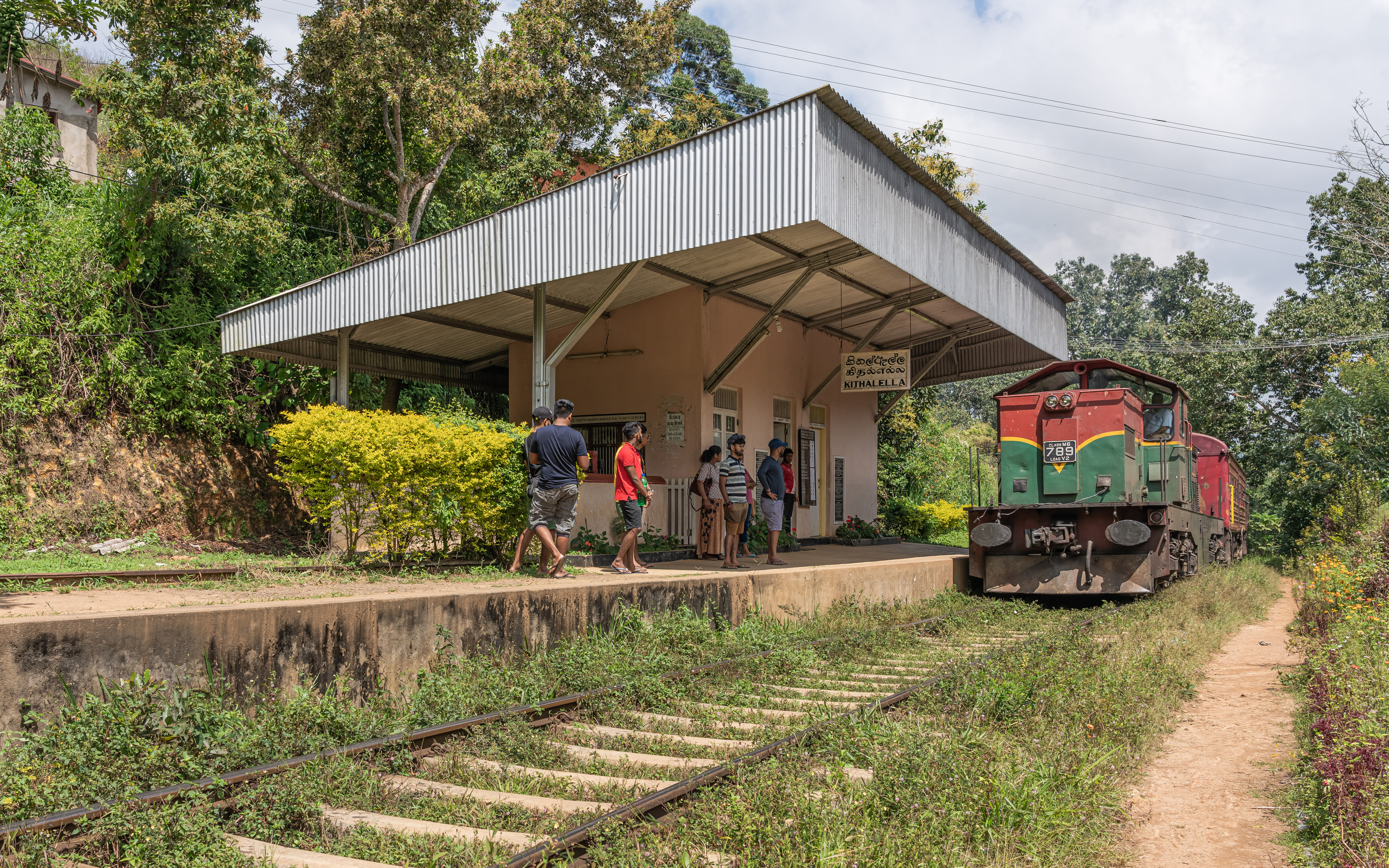 Kithalella train stop near Ella, Sri Lanka, with a train arriving